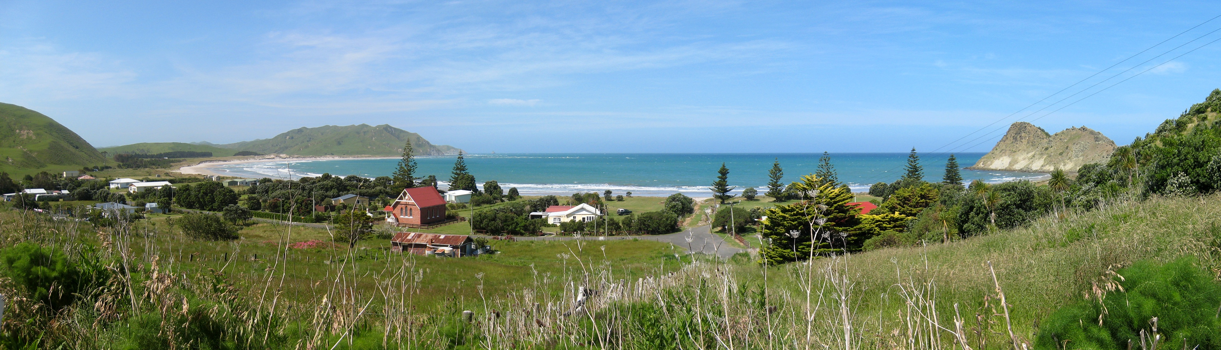 Overlooking Whangara, the location of the Whale Rider film, on New Zealand's East Coast.